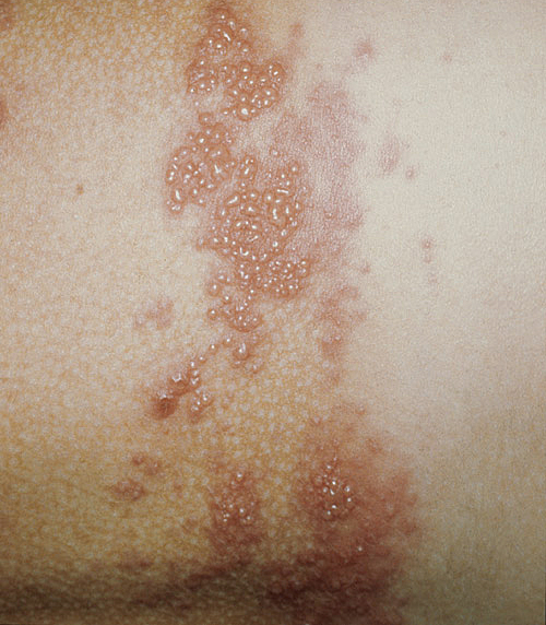 Shingles (herpes zoster) is a reactivation of chickenpox, which occurs especially in old age or in immune deficiency